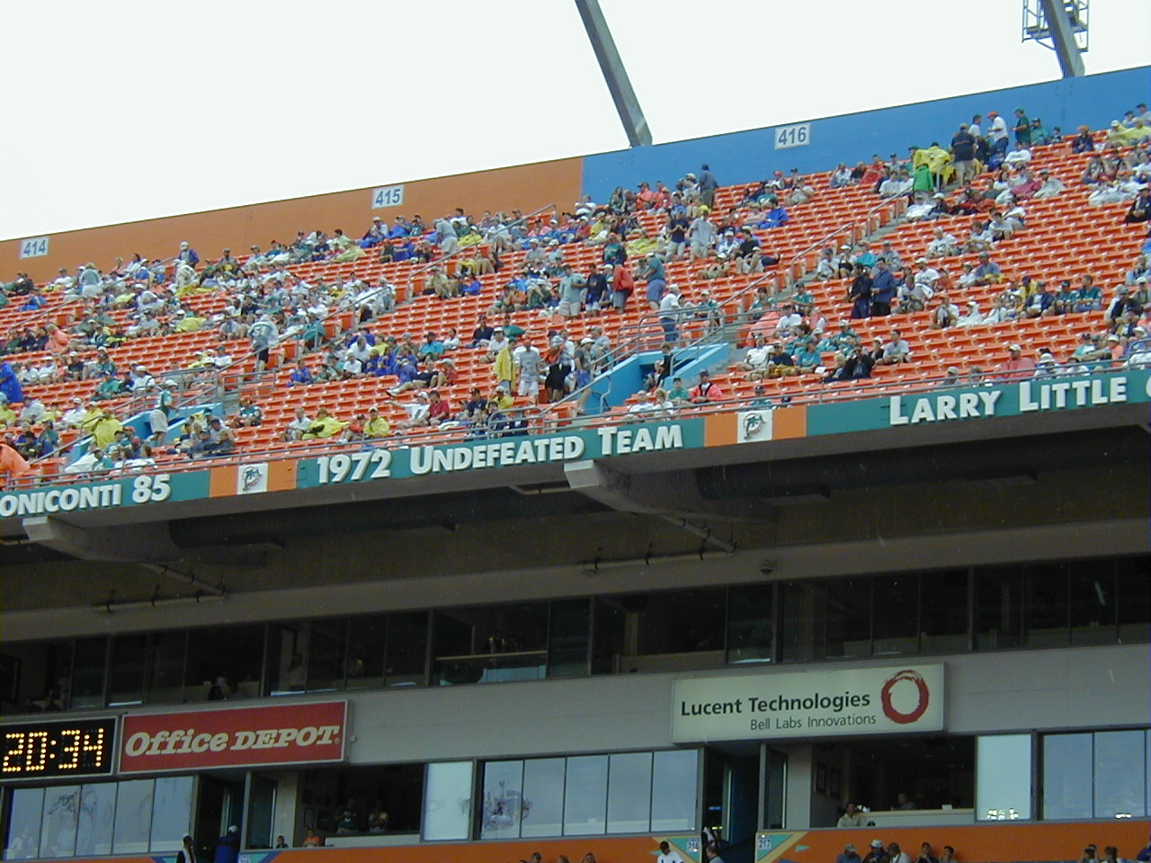 Photo of part of interior of a stadium